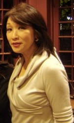 cropped photo of Connie Chung